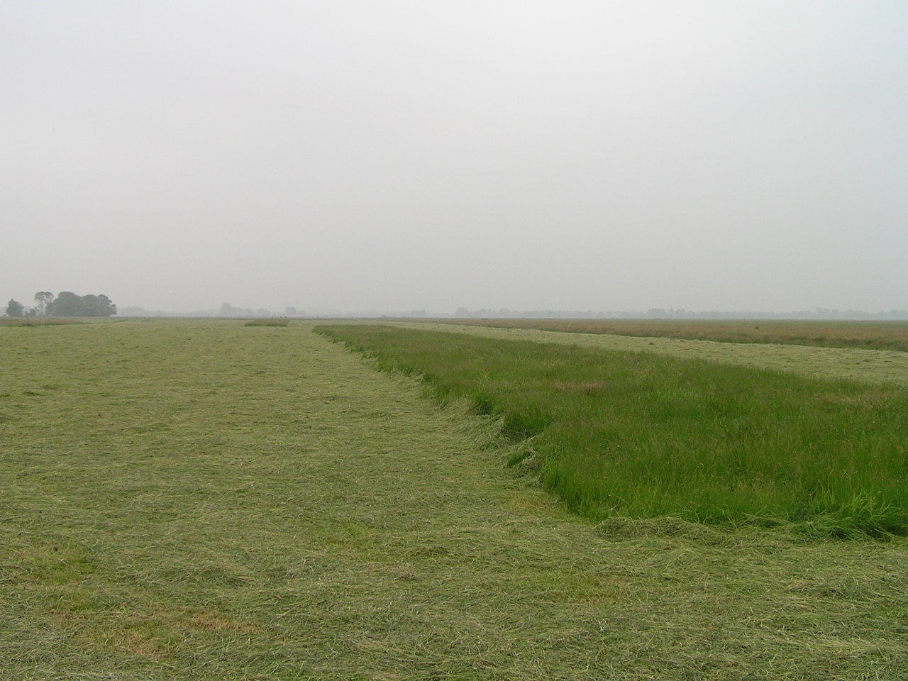 In this grassland pasture the grass in a refuge zone has not been mowed, in order to provide shelter to young birds. The picture was taken in the polder Rondehoep in the Netherlands.